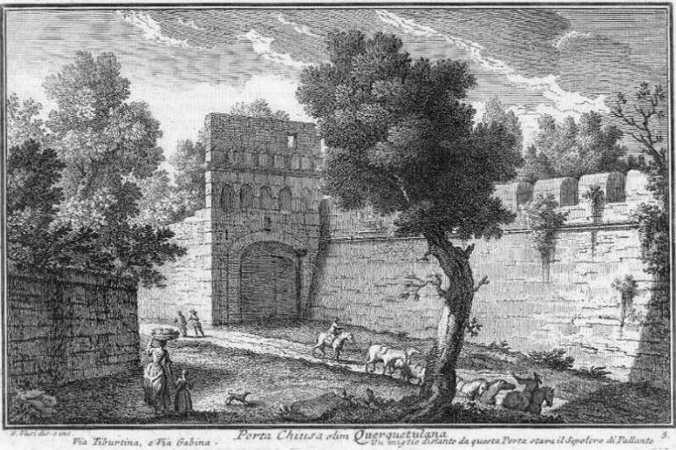 1) Porta Chiusa; 2) Villa Gentili.